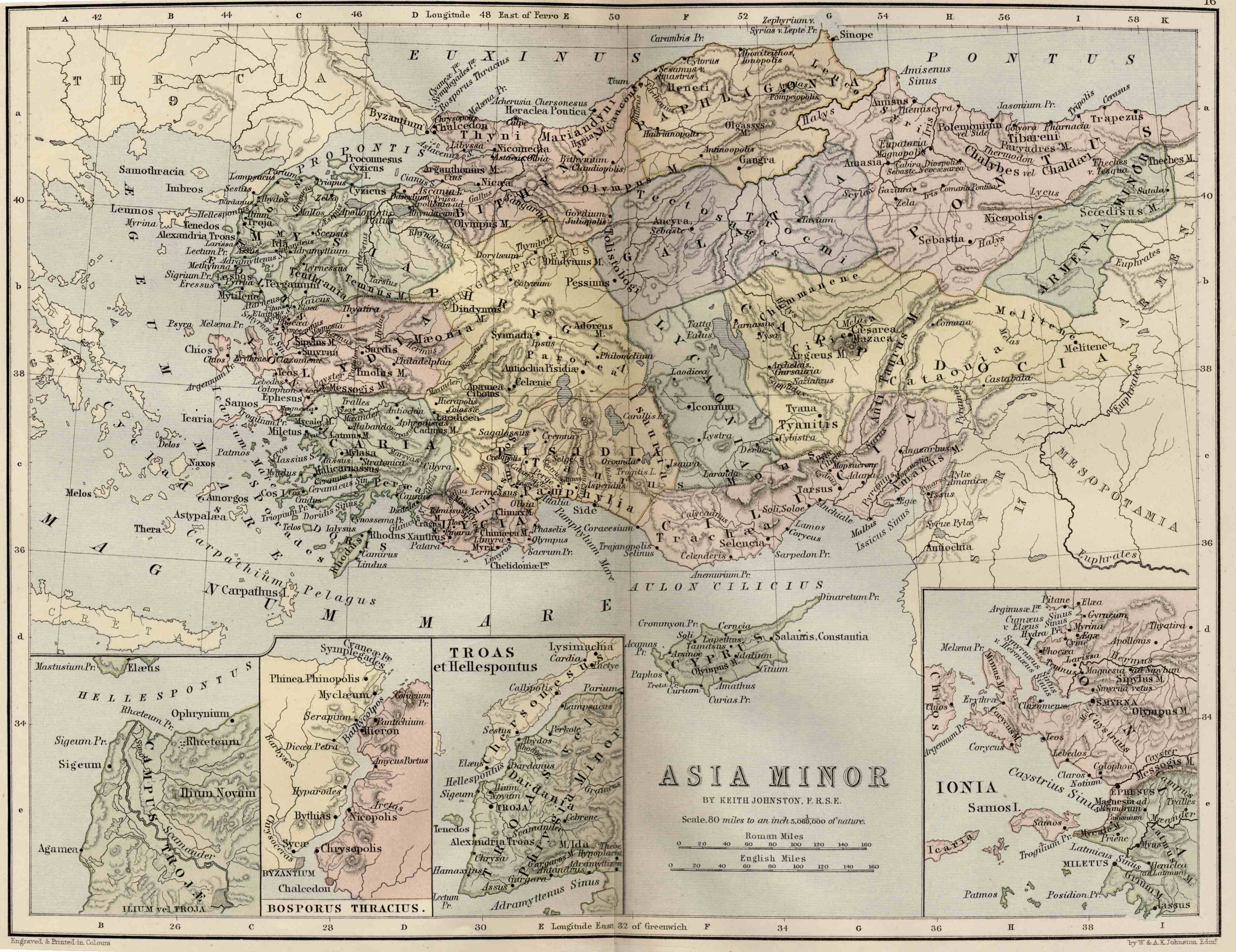 Asia Minor. Including Pontus, Cappadocia, Cilicia, Pisidia, Lycia, Caria, Lydia, Mysia, Bithynia, Paphlagonia, Phrygia, and Crete. "These color maps are 11" x 13.5" when printed at 300dpi. They were copied from an original 1886 Ginn & Company Classical Atlas designed by mapmaker Keith Johnston. These maps are completely Public Domain and can be used absolutely without restriction or even sold commercially without my permission. (There is slight distortion caused by the age of the original and merging the scans (two scans per map)" Information from